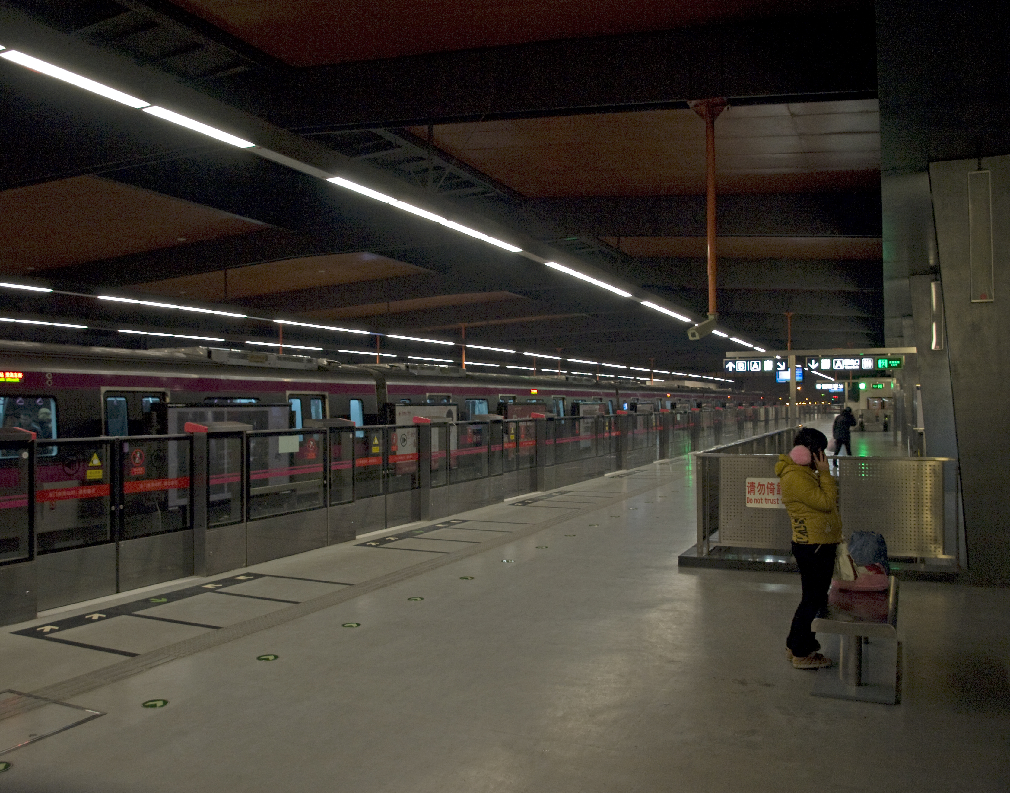 Tongjinanlu station, Beijing Subway, eastbound platform